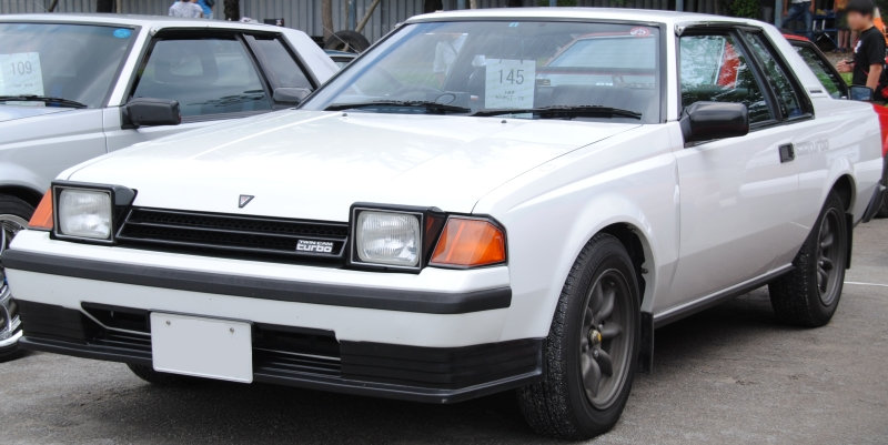 Toyota Celica GT-TS